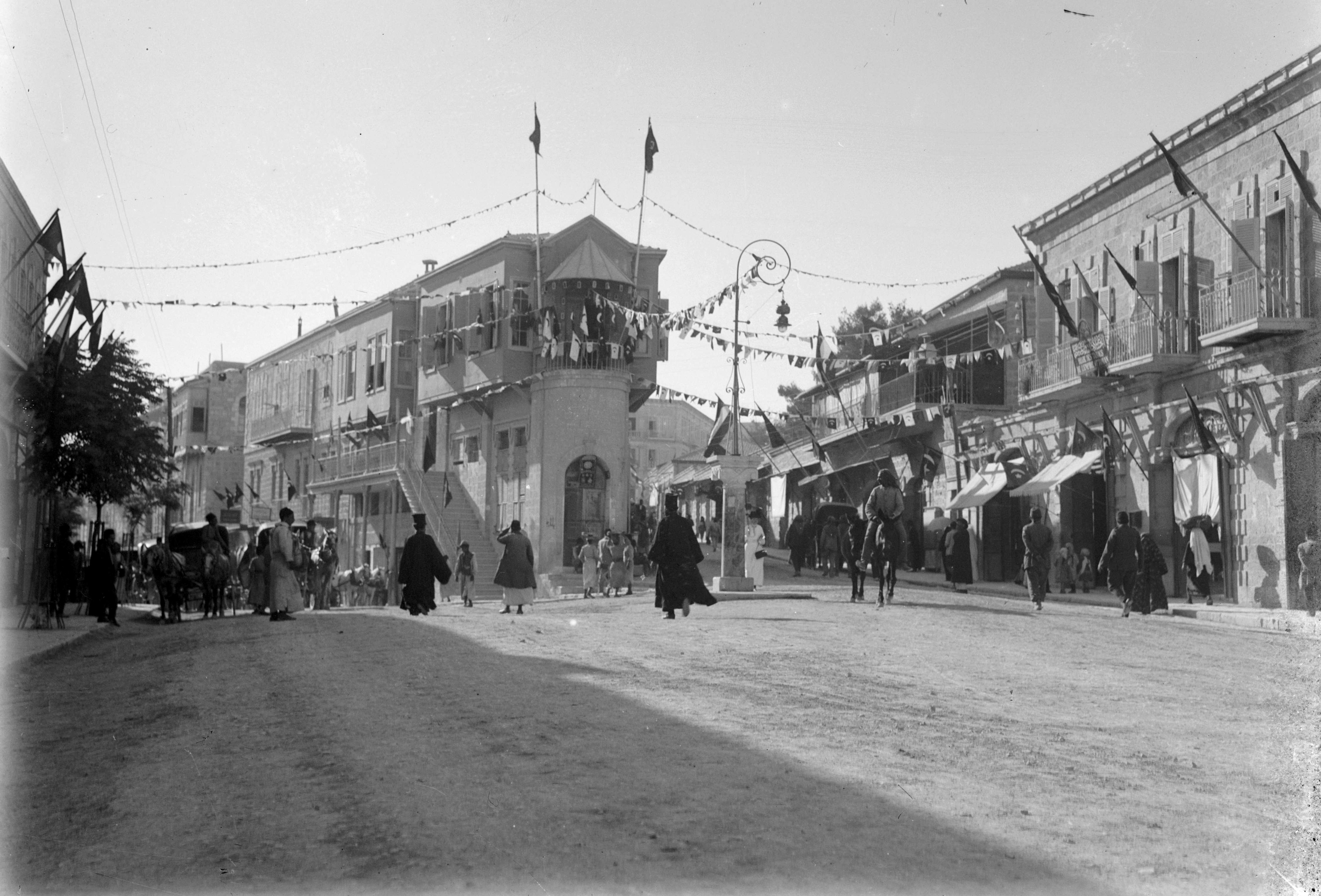 Last celebration of the Sultan's birthday in Jerusalem.